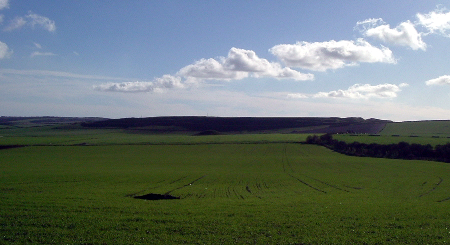 Maiden Castle.